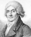 Portrait of Jean-Baptiste-Antoine Suard (1733-1817), French journalist